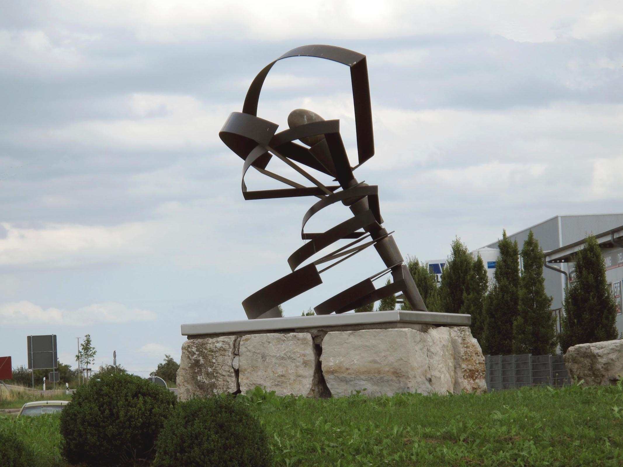 Gerlinde Beck's homage to Dore Hoyer, 2006